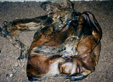 A bog body dubbed "Lindow Man" at a British Museum.